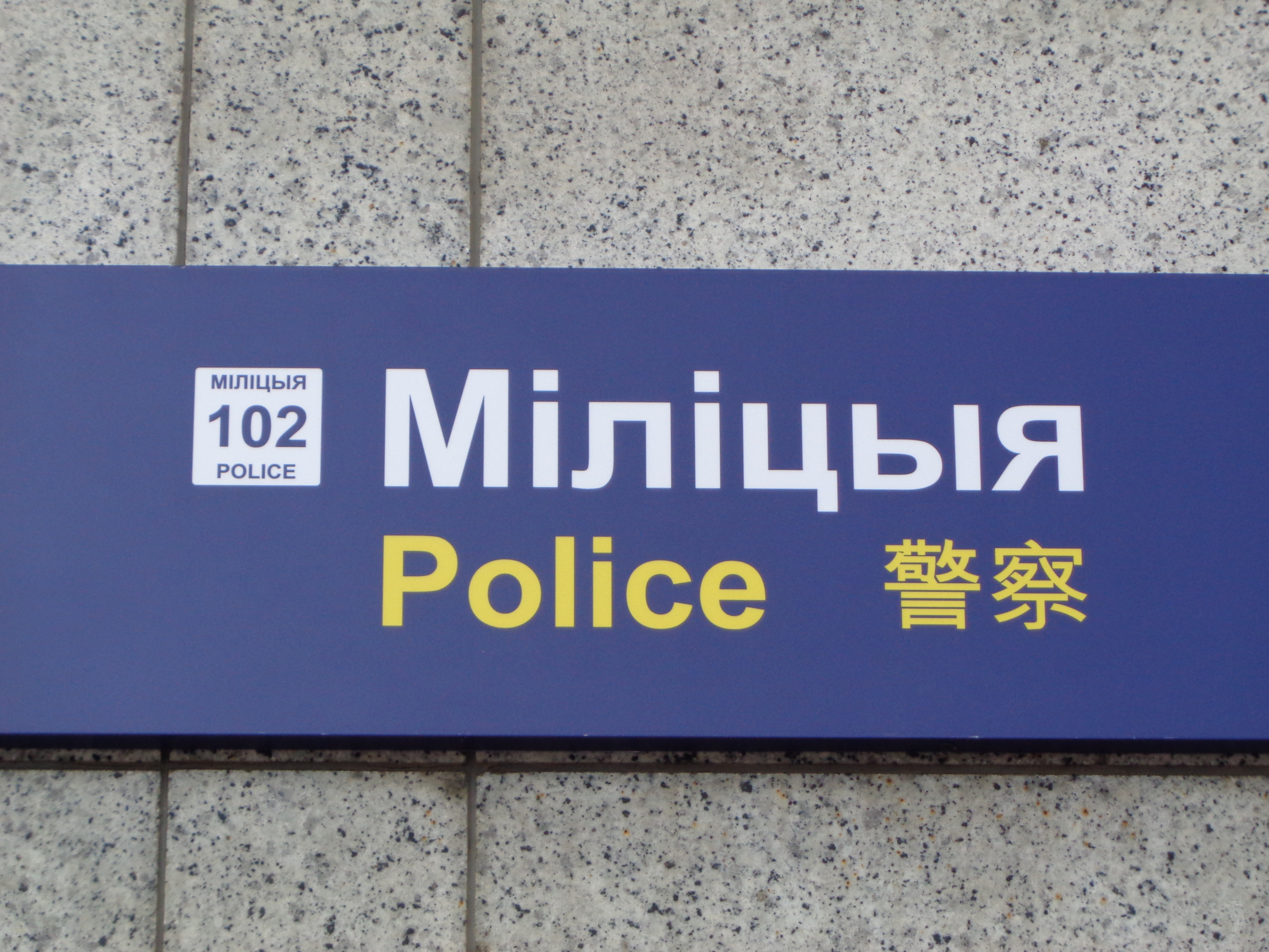 Chinese signage, Main Railway Station, Minsk, Belarus